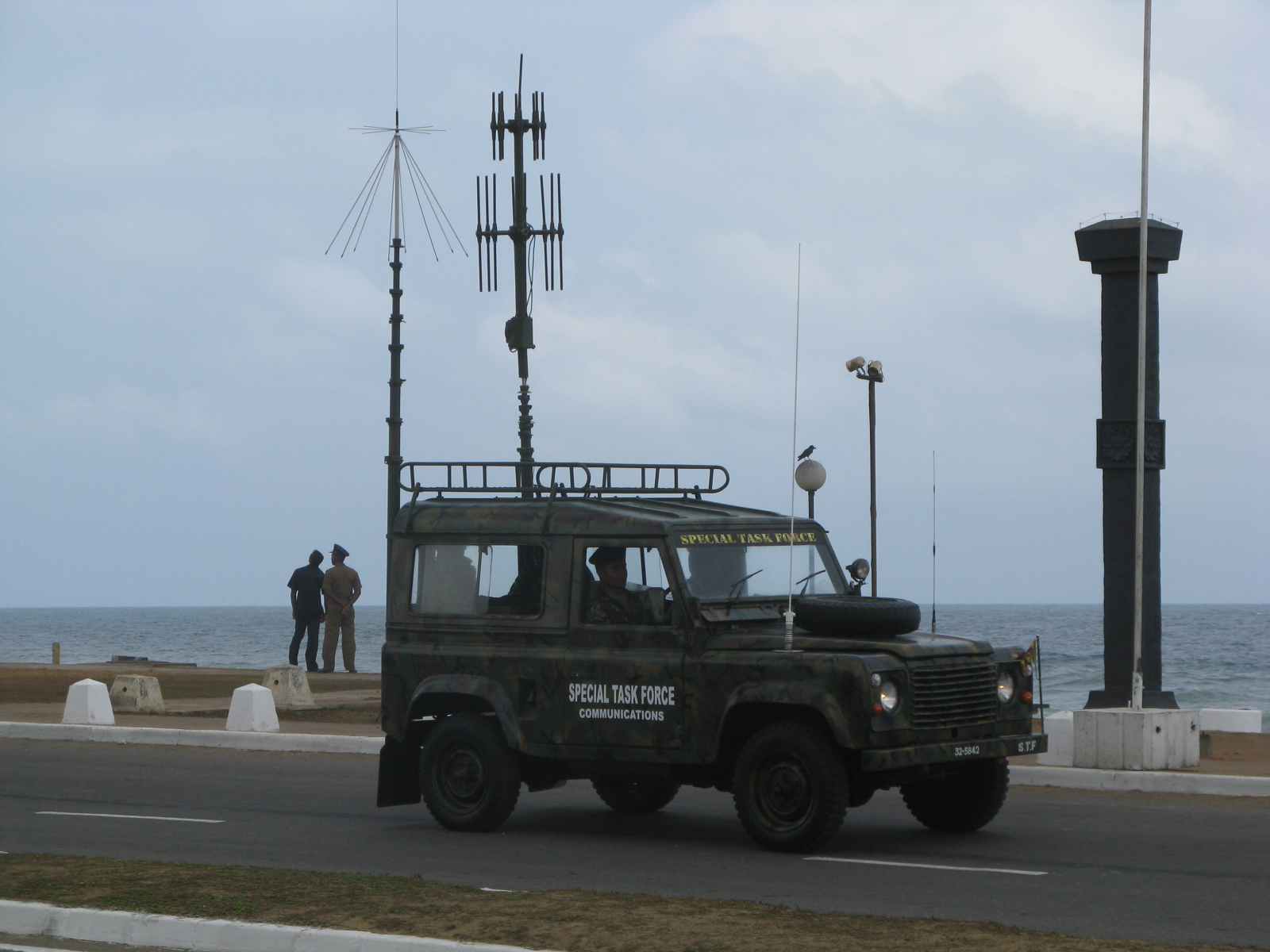 Special Task Force Communication Unit - Sri Lanka Army